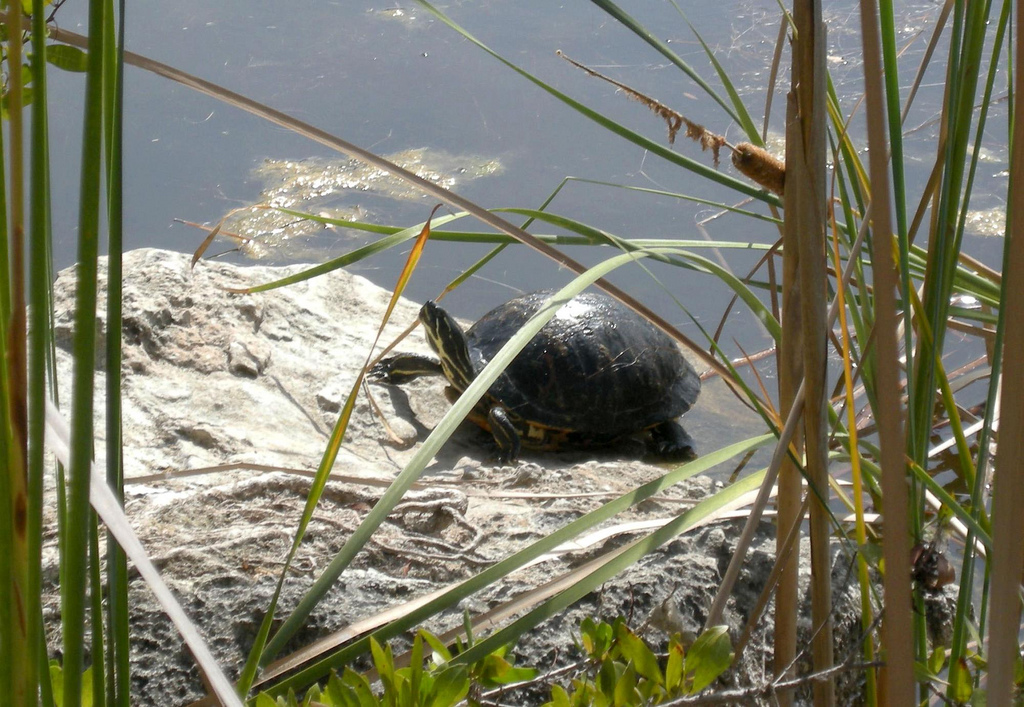 Turtle near the Blue Hole, on Big Pine Key, Florida.